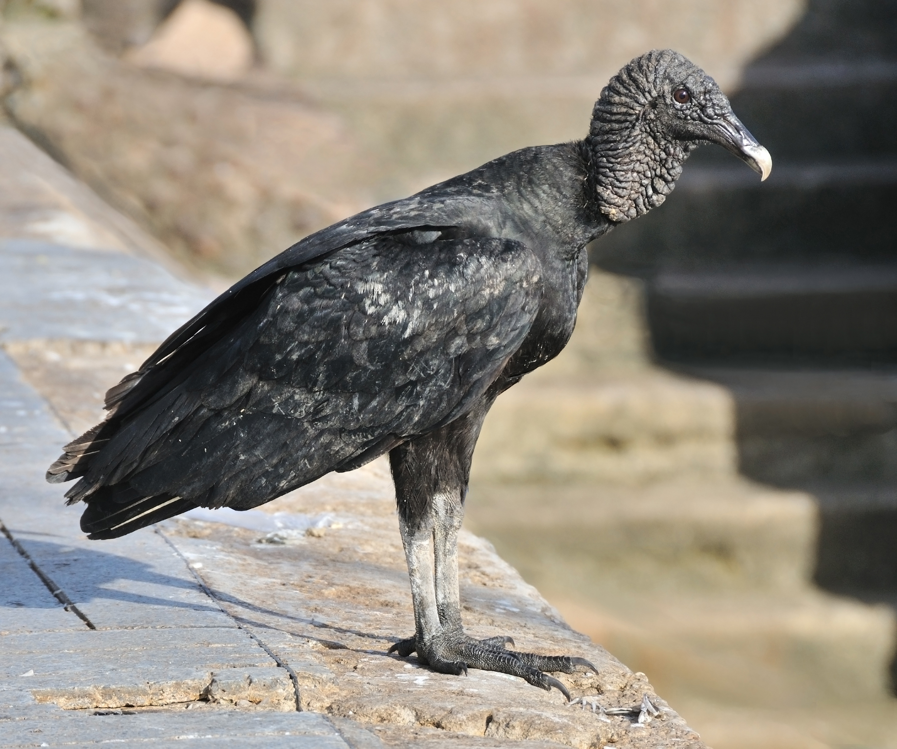 Black vulture (Coragyps atratus brasiliensis) in the fishing port at Belém.